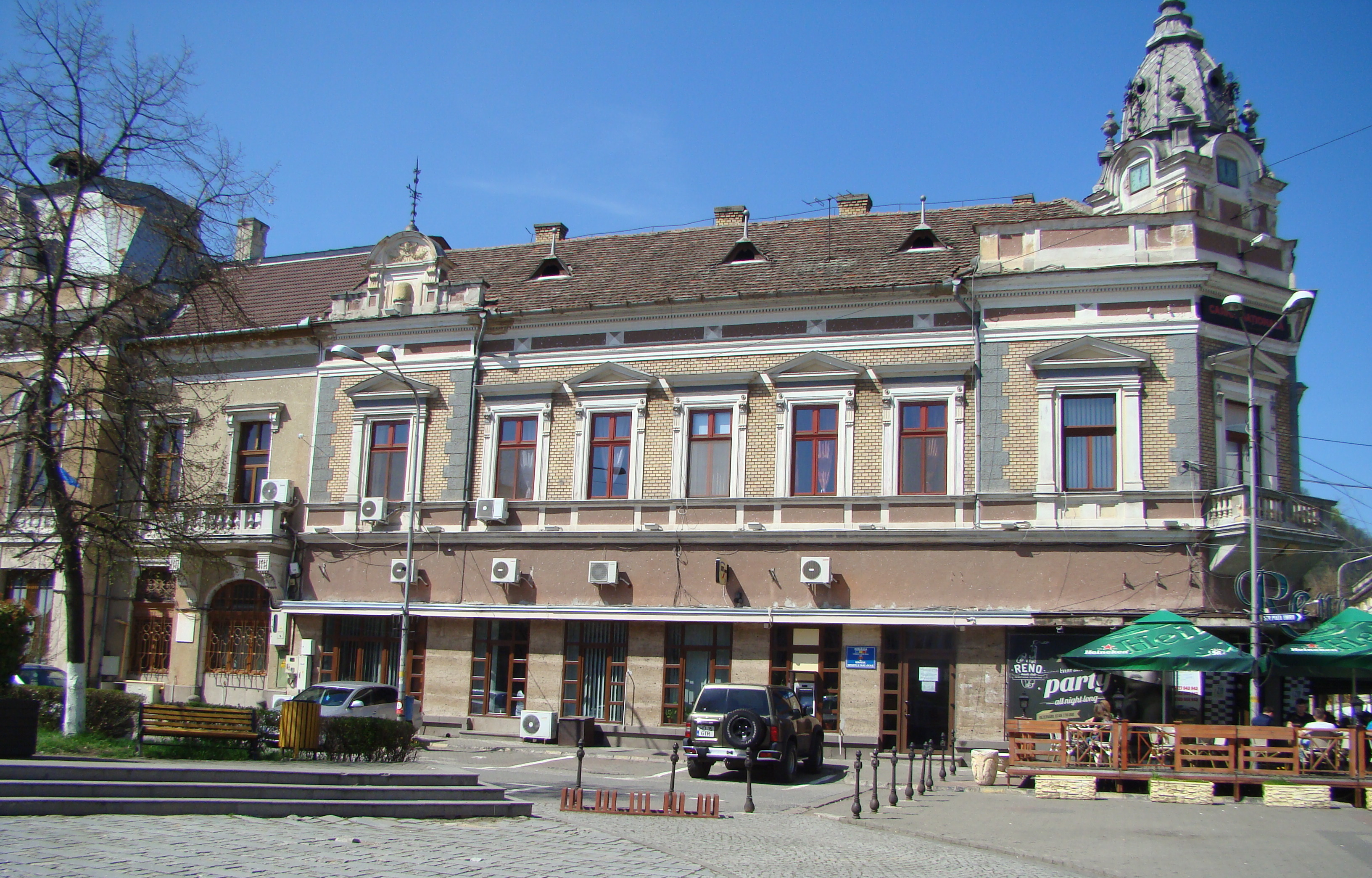 Former Orient Hotel in Deva, Hunedoara county, Romania